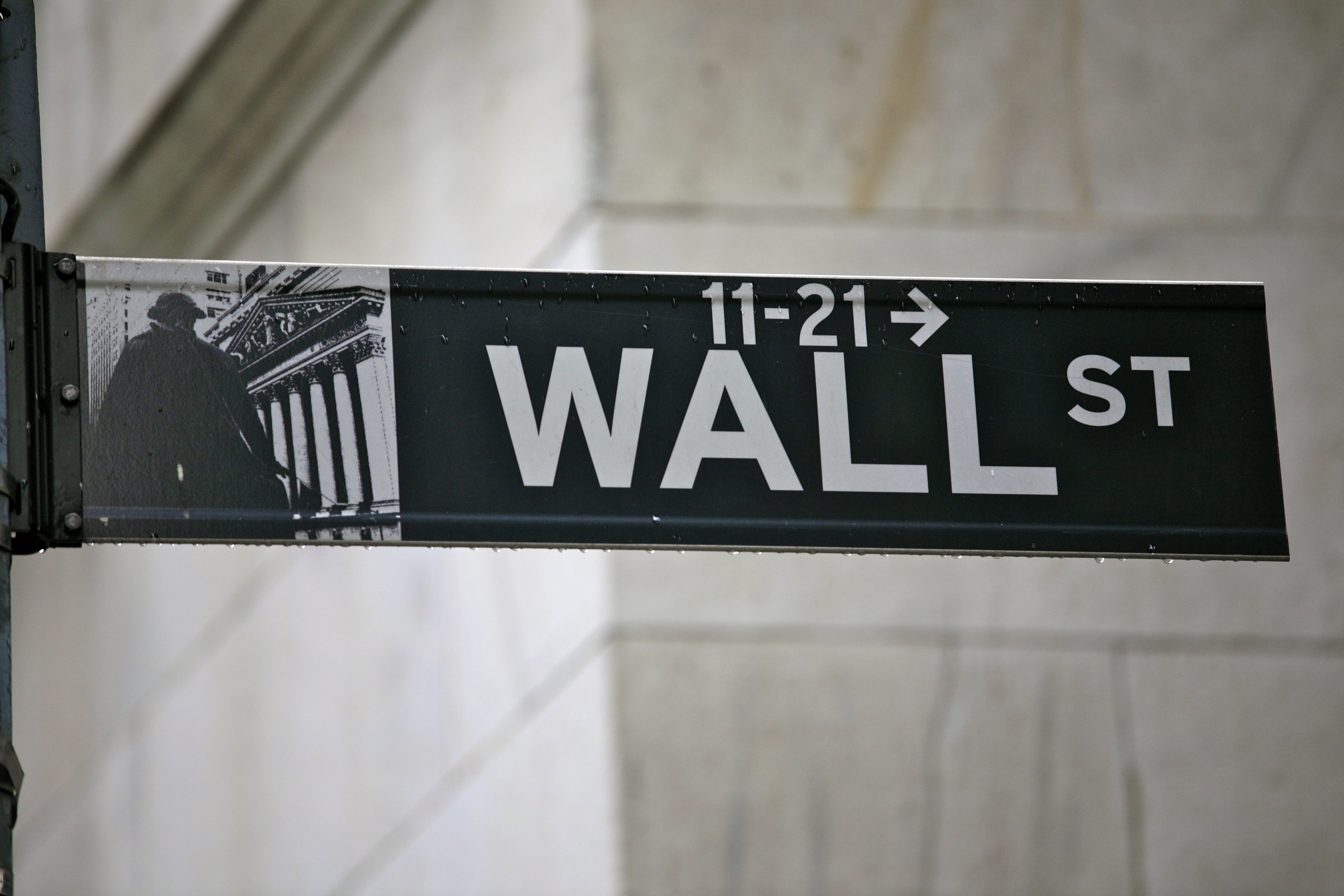 Wall Street Sign